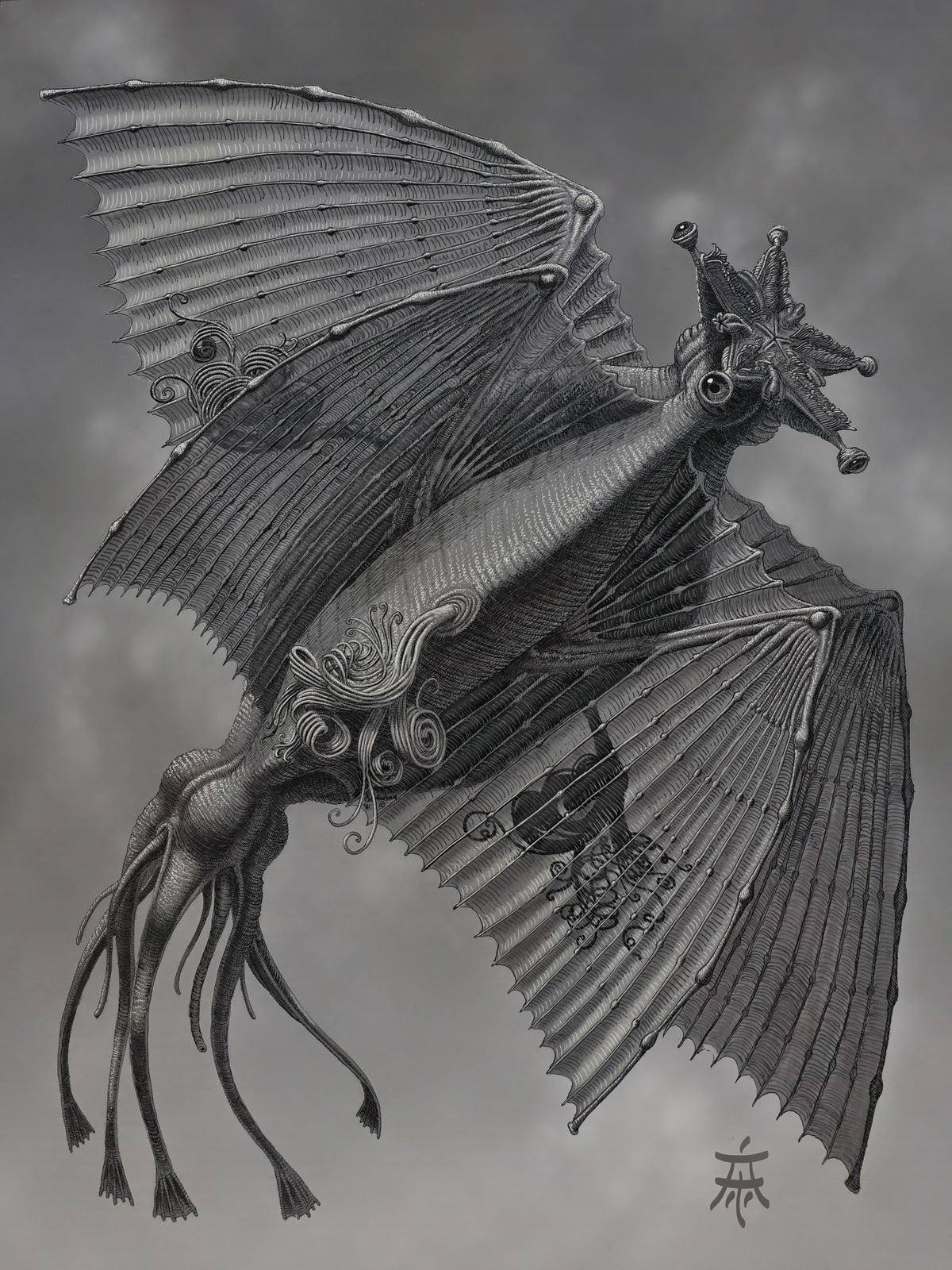 An Old One. Tom Ardans' artwork based on H. P. Lovecraft's short novel At the Mountains of Madness.